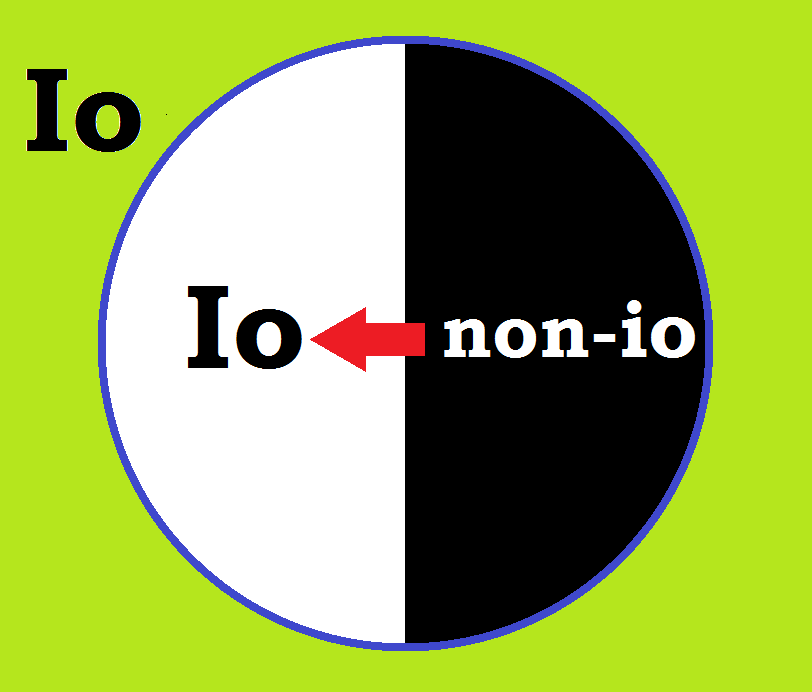 Diagram of the second principle in the Fichte's doctrine